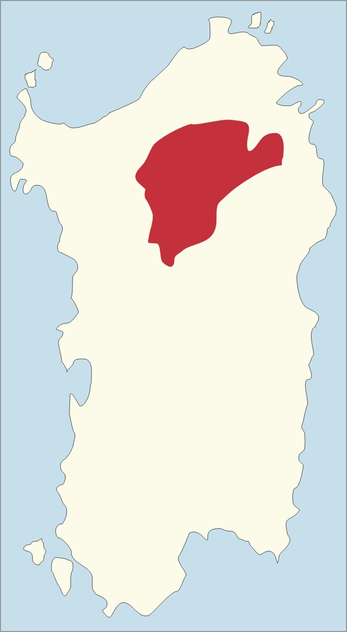 Map of the situation of the Roman Catholic diocese of Ozieri in Sardinia